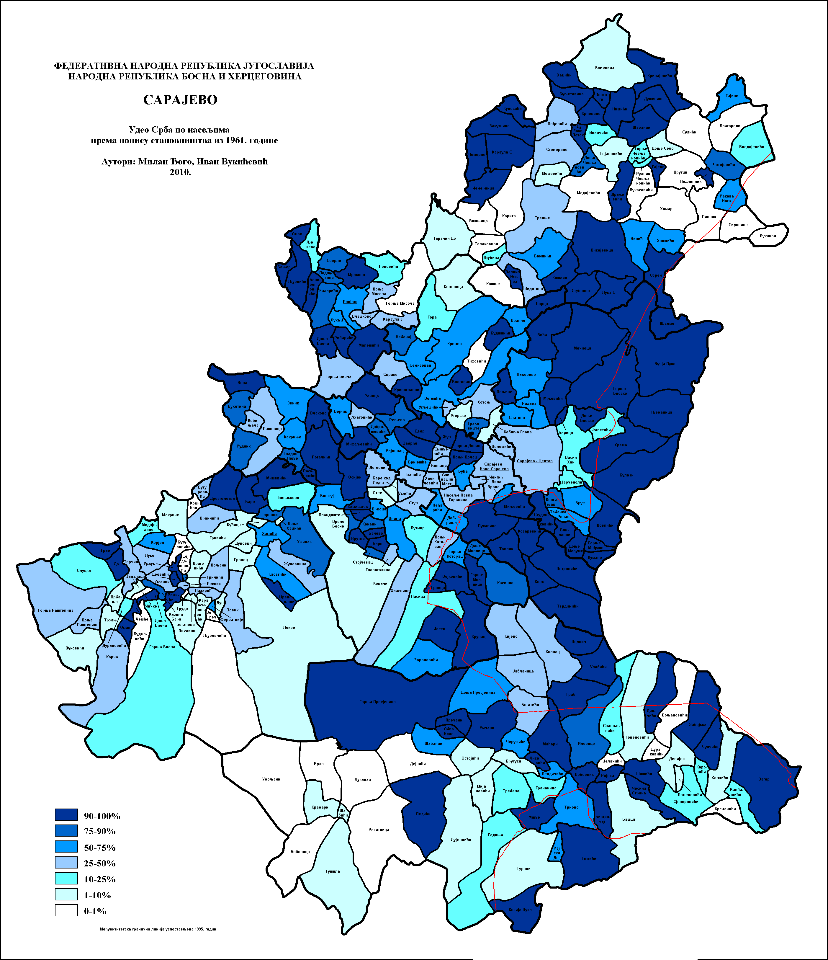 Share of Serbs in Sarajevo by settlements 1961.